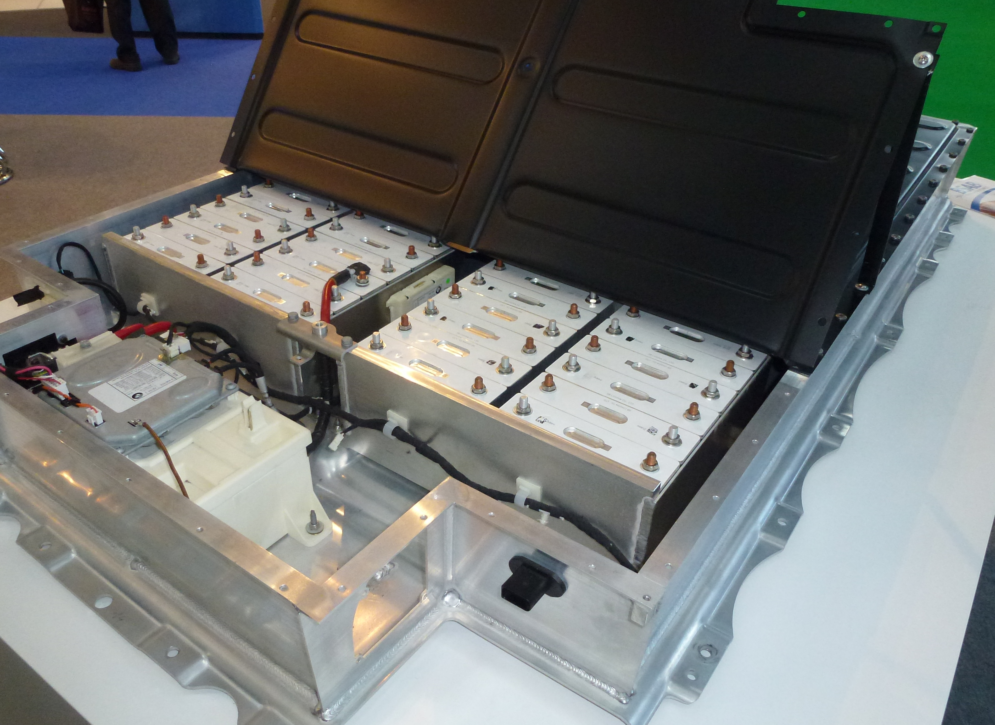 Battery Pack for BMW-i3 Electric Vehicle (at Munich Trade-Show Electronica)